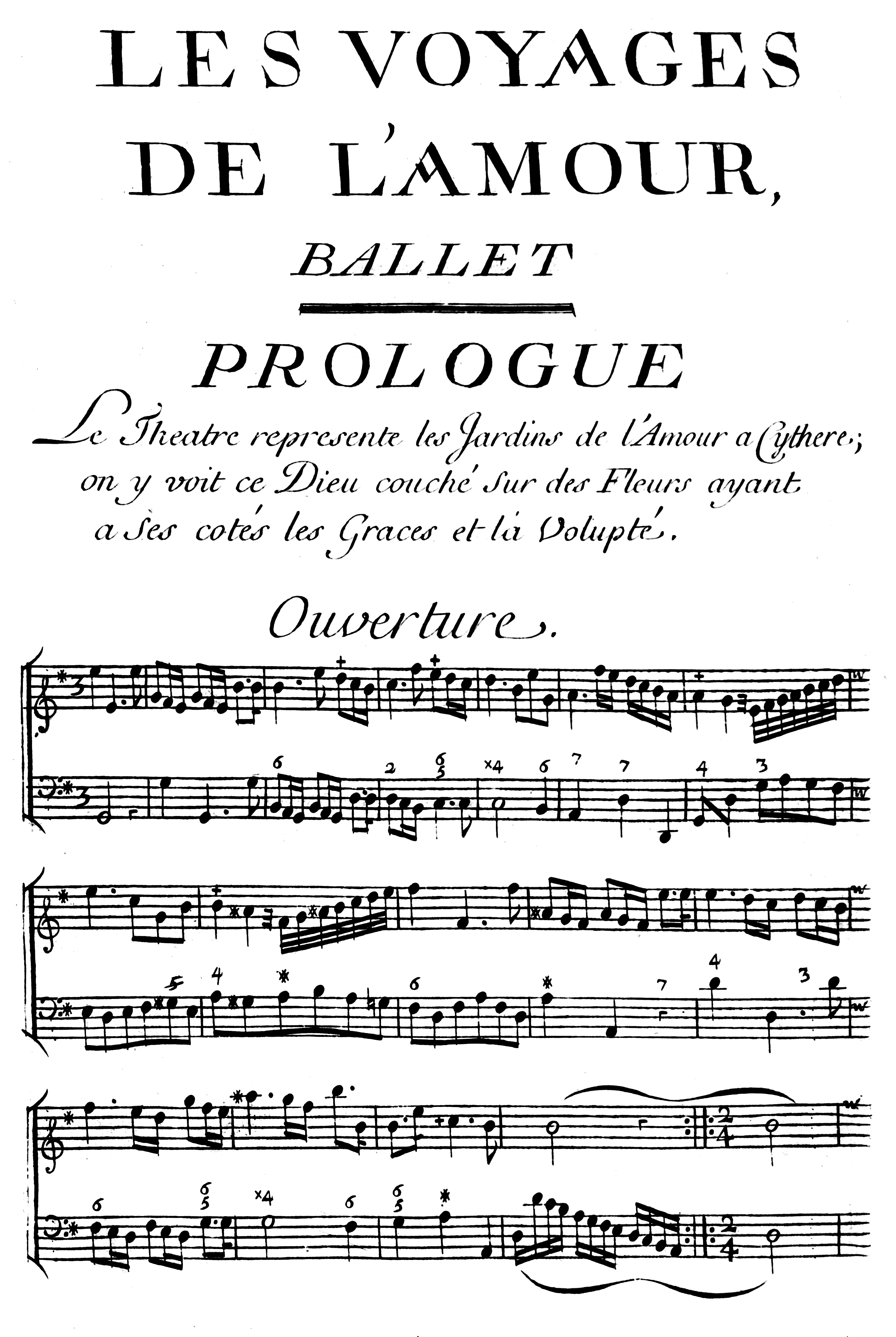 Joseph Bodin de Boismortier - Les Voyages de l'Amour - first page of the score, Paris 1736